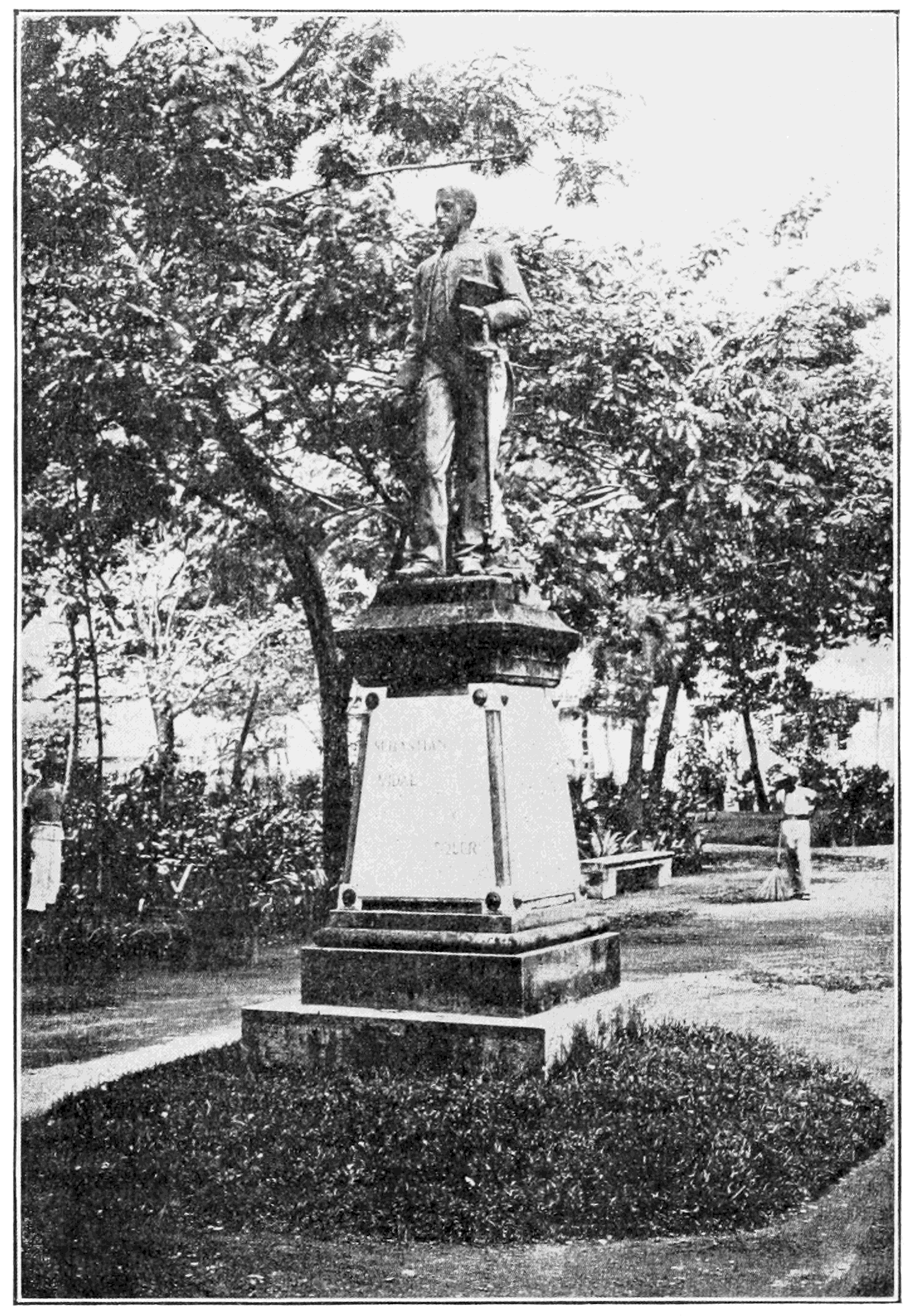 Statue of Sebastian Vidal, by Enric Clarasó, erected in the Botanical Garden of Manila, although it no longer survives.